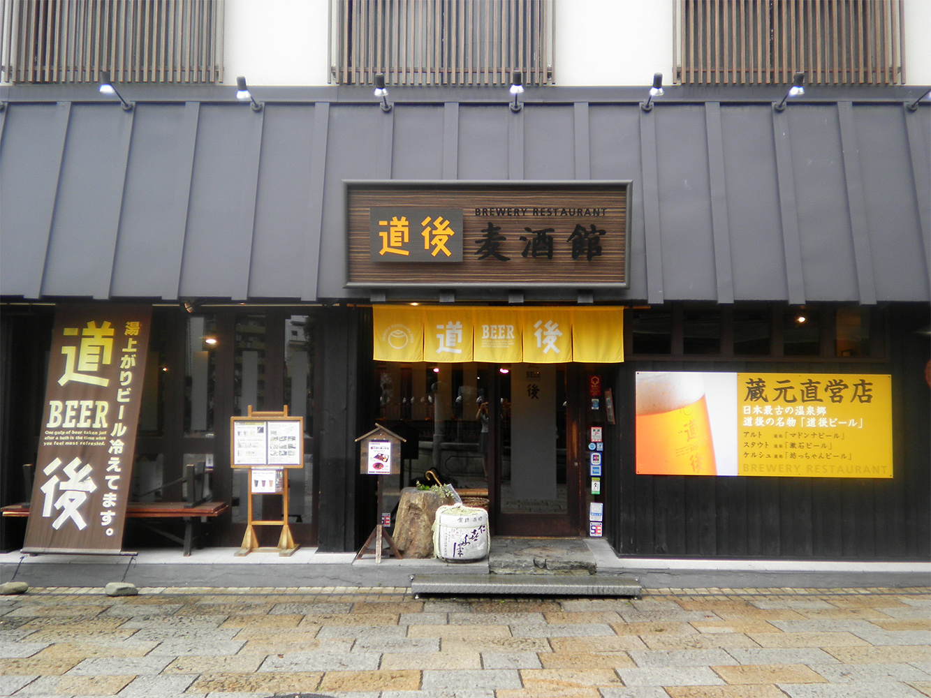 Dogo Beer brewery restaurant in front of Dogo Onsen in Matsuyama, Ehime, Japan